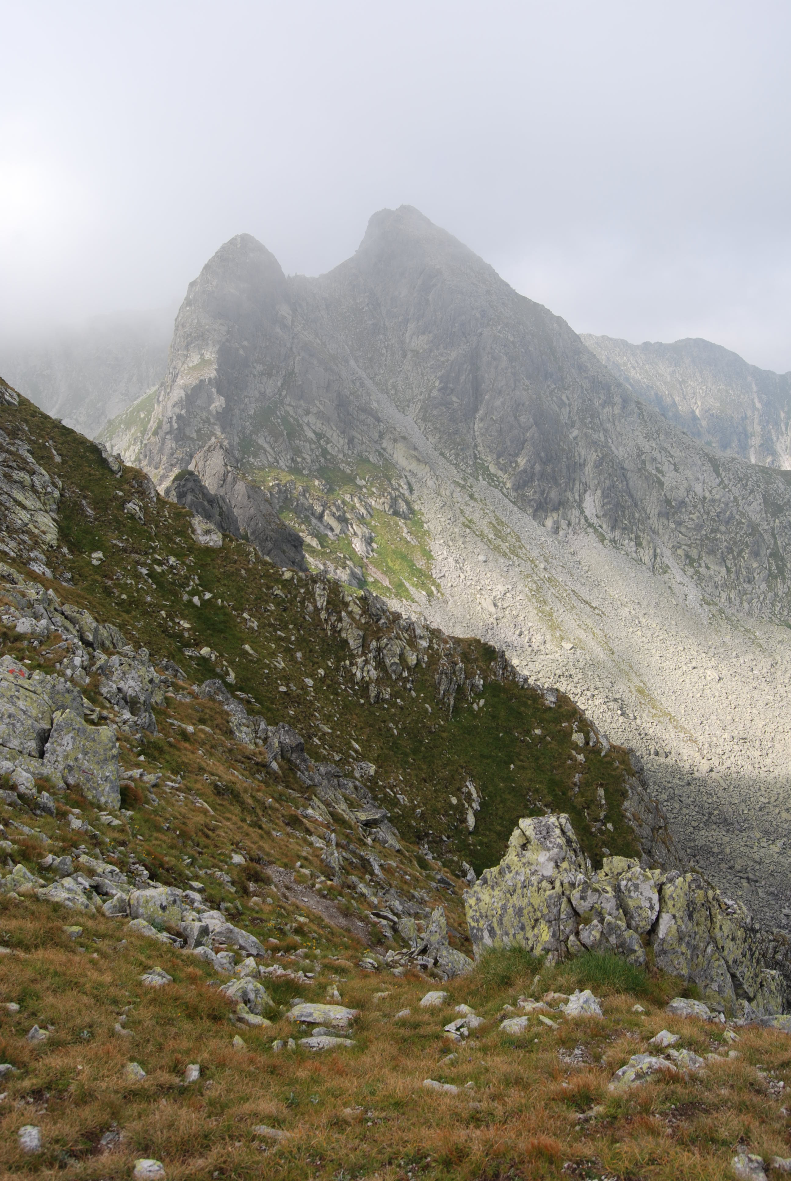 The Judele peak (2398m) in the Retezat mountains, Romania. It is situated on the southern side of the Scientific Reservation Gemenele–Tău Negru.